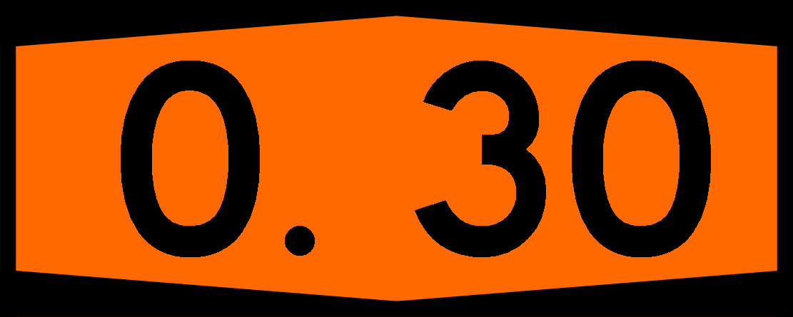 Sign of Otoyol 30